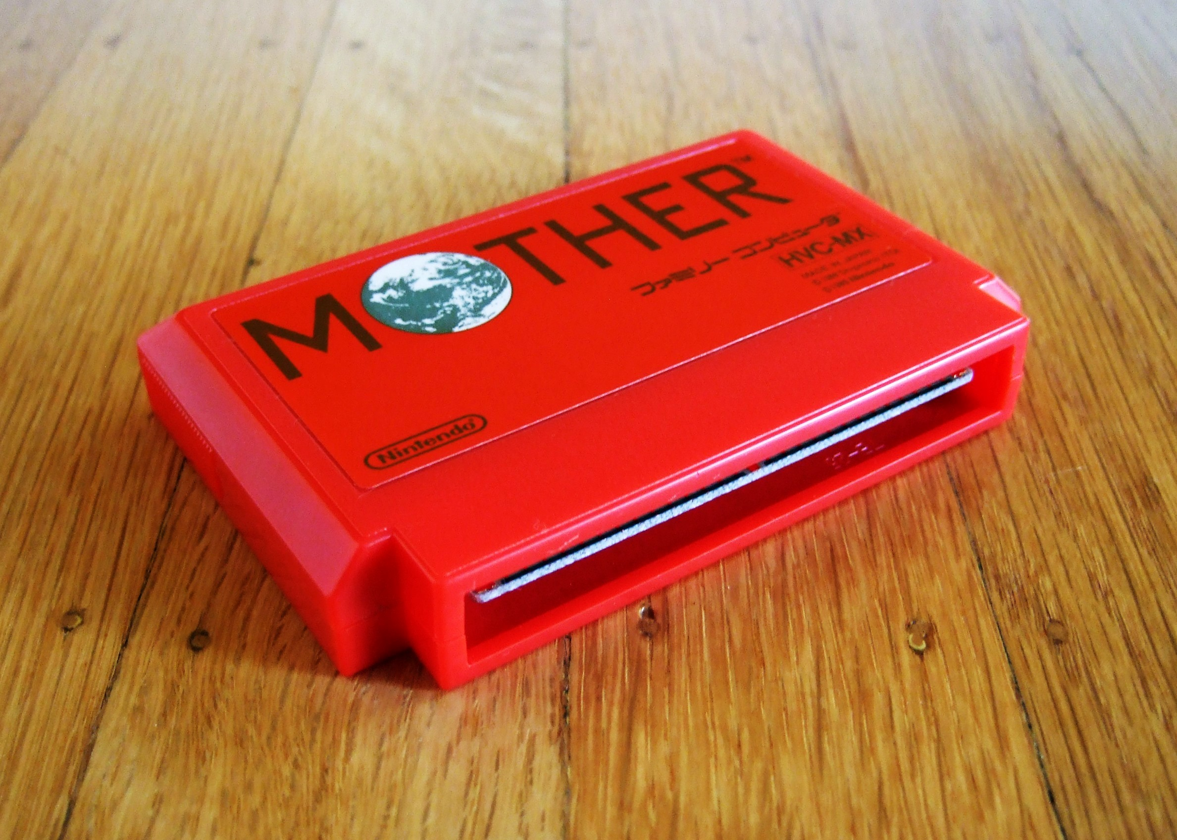 The entirely red cartridge of Mother for the Nintendo Famicom.